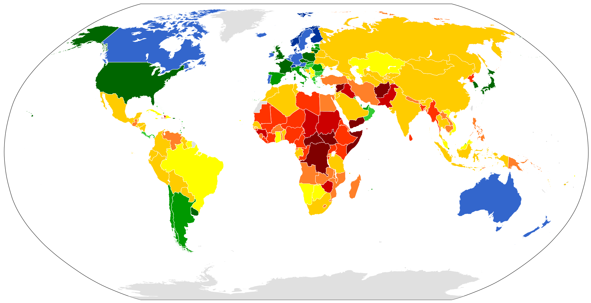 World Map, showing Fragile States according to the "Fragile States Index 2018" [1] (Fund for Peace) 10-Sustainable 20 30 40-Stable 50 60 70-Warning 80 90 100-Alert 110 120 No Information / DisputedTerritory